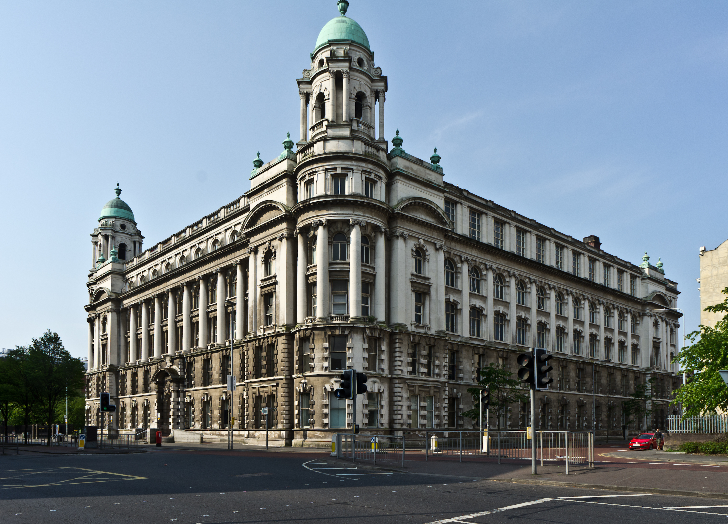 Belfast Metropolitan College is a further and higher education institution in Belfast, Northern Ireland.